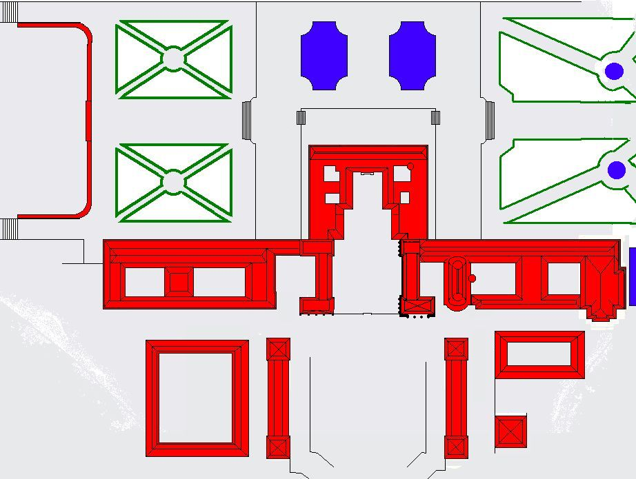 Versailles as it was in 1789. An opera had been added to the North-wing by Louis XV.